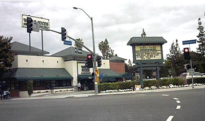 Whole Foods Market in Sherman Oaks, Los Angeles, California. Photographed on April 24, 2005 by user Coolcaesar.